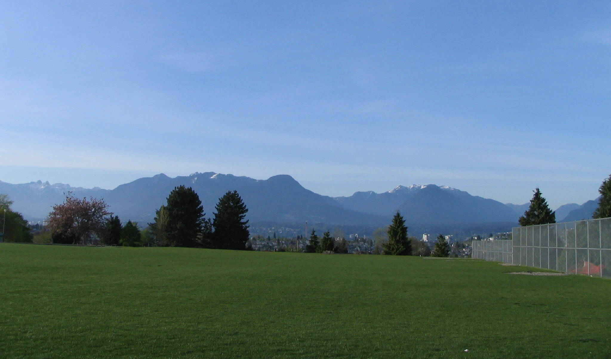 This image was created by me, Flying Penguin of Pacific Spirit Photography ( of Burnaby, British Columbia, Canada